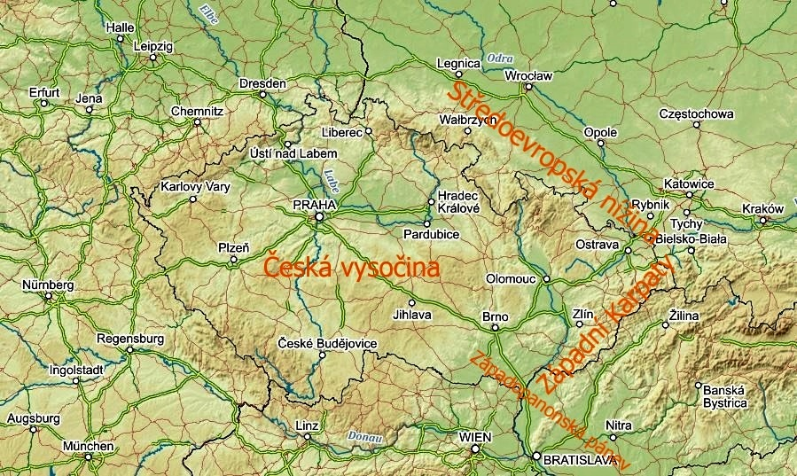 The georelief of the Czech Republic is divided into regional (territorial) geomorphological units on state territory with an area of 78 867 of square kilometers, in different geomorphological levels, in the Czech environment called: province, system, sub-system, whole, sub-whole (part of whole), district. The Czech province of the third level is connected to the geomorphological European system in the fourth order. There are four geomorphological provinces in the Czech Republic: Bohemian Highlands, Central European Lowland, Western Carpathians, West Pannonia Basin. Indicative deployment of geomorphological provinces in the Czech Republic present the Czech labels on the photo.